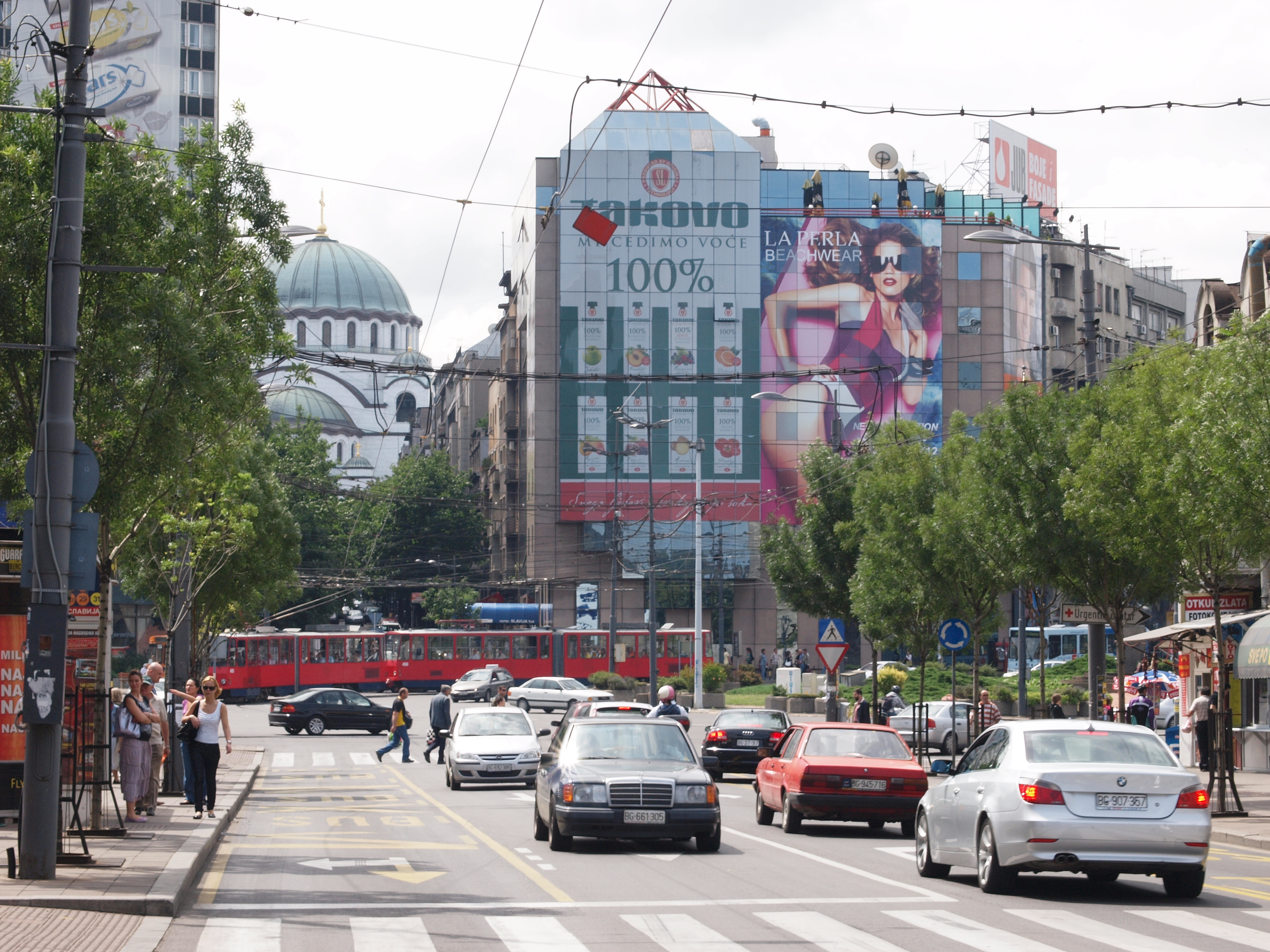 Slavija square Belgrade, Serbia